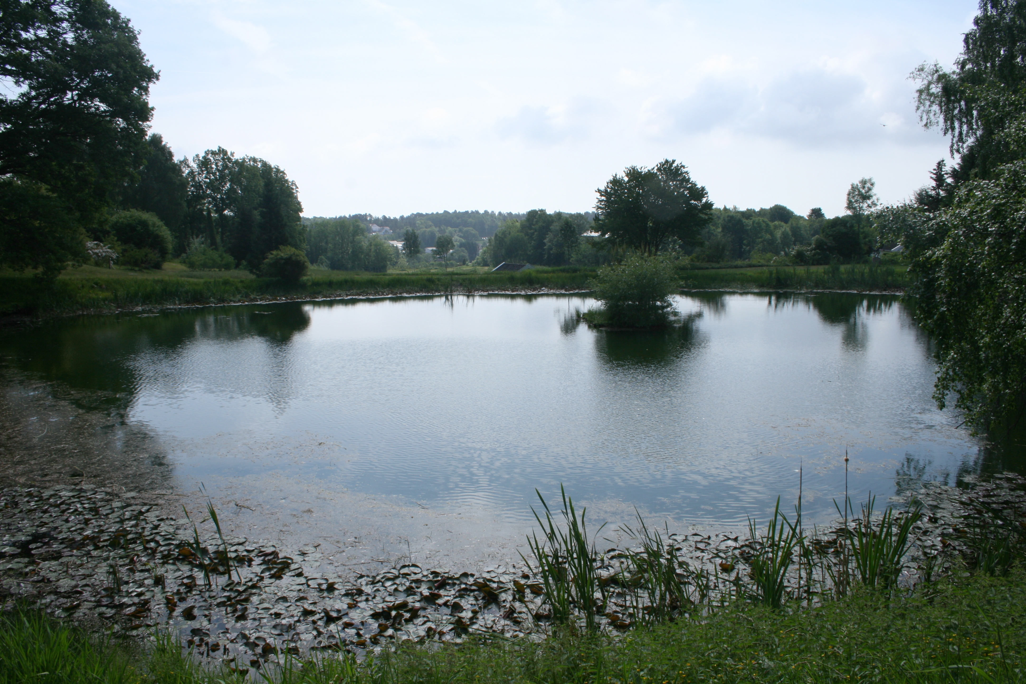 Dømmesmoen Grimstad